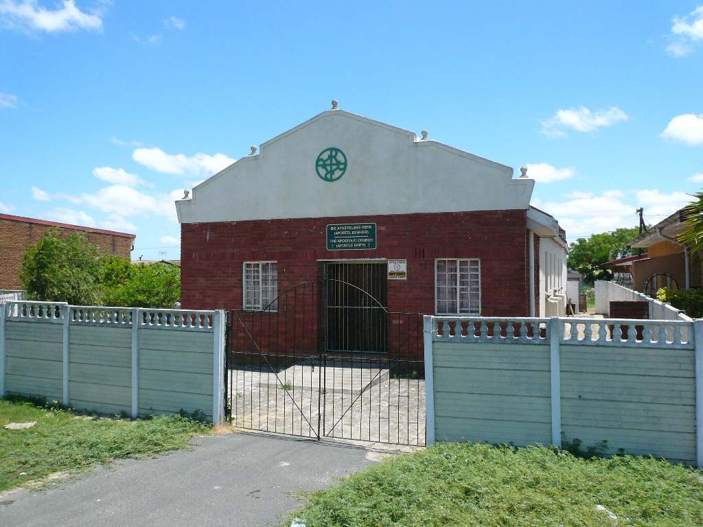 Apostolic Church, ZA, Capetown, Kraaifontein